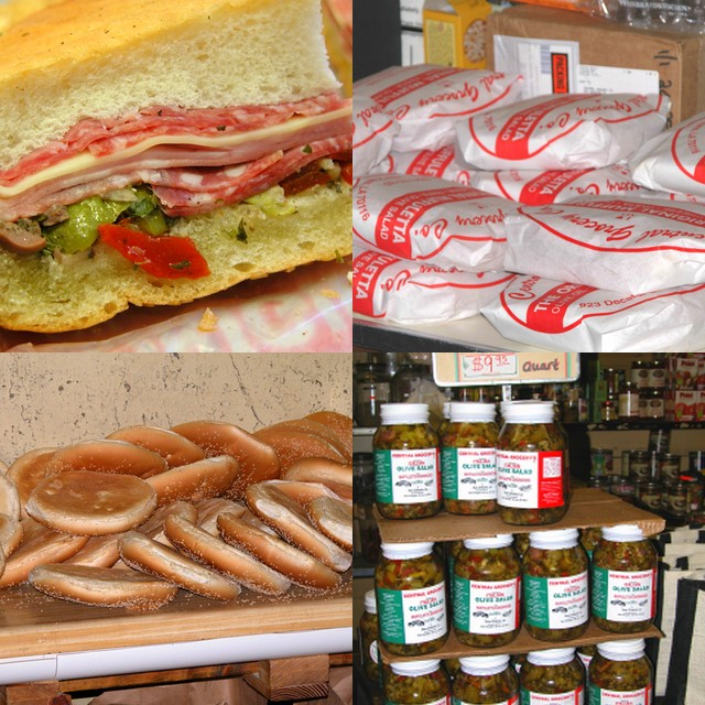 A collage of Central Grocery's Muffaletta in New Orleans, Louisiana. Contributed by Jason Perlow of